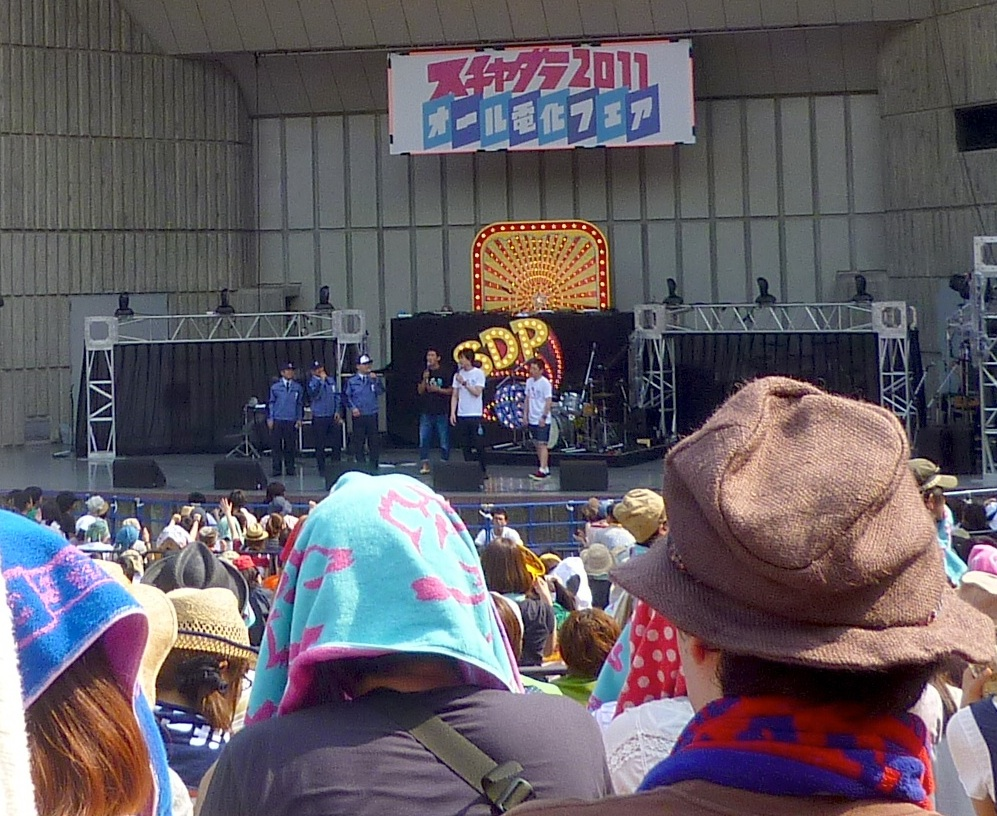 Scha Dara Parr (スチャダラパー Suchadarapā), or SDP for short, is a three-member Japanese hip-hop group that formed in 1988 and debuted in 1990. This is a picture of them live on stage (the three guys in blue on the left) during a concert in 2011.